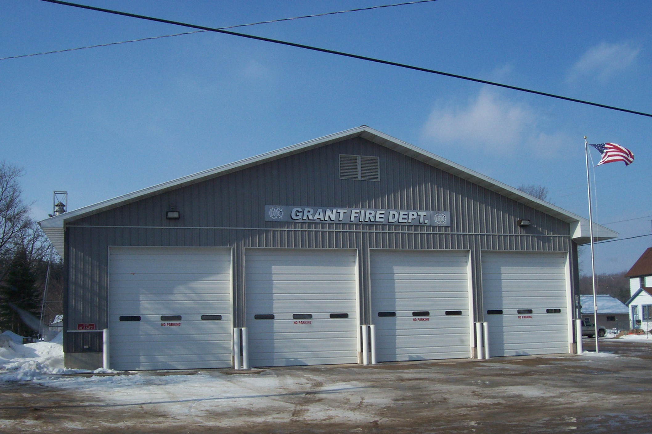 Looking west at the fire station for Grant, Shawano County, Wisconsin in Caroline, Wisconsin.